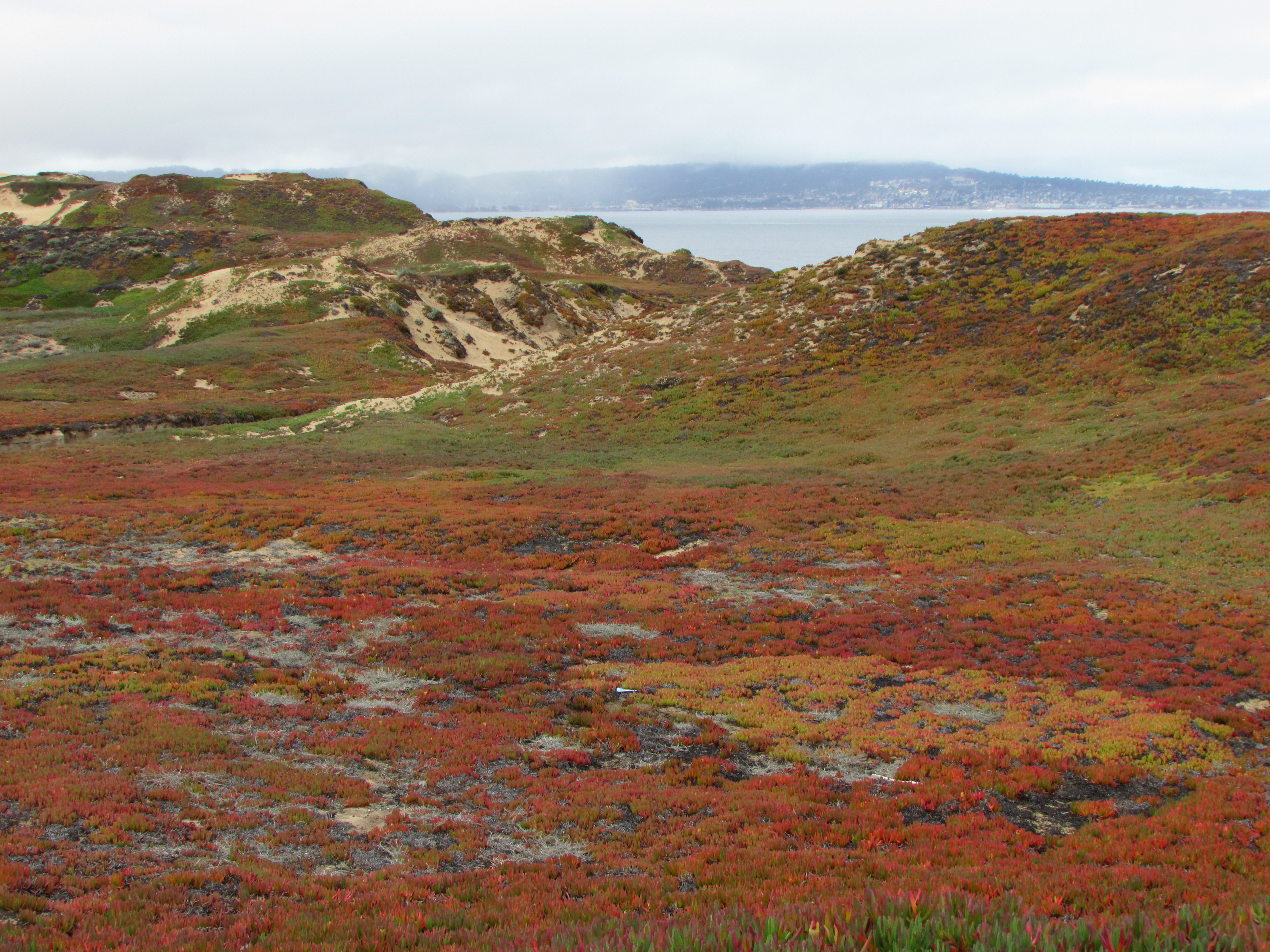 Fort Ord Dunes State Park, California, USA